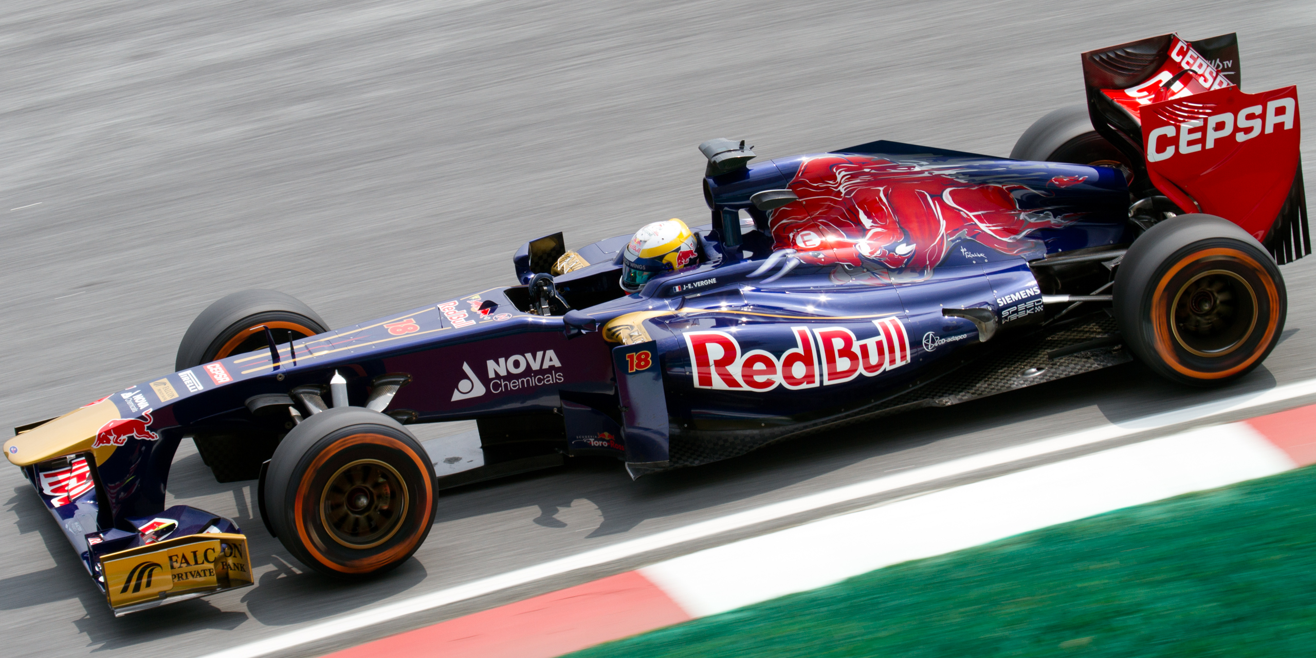 Formula One 2013 Rd.2 Malaysian GP: Jean-Éric Vergne (Toro Rosso) during the first practice session on Friday.